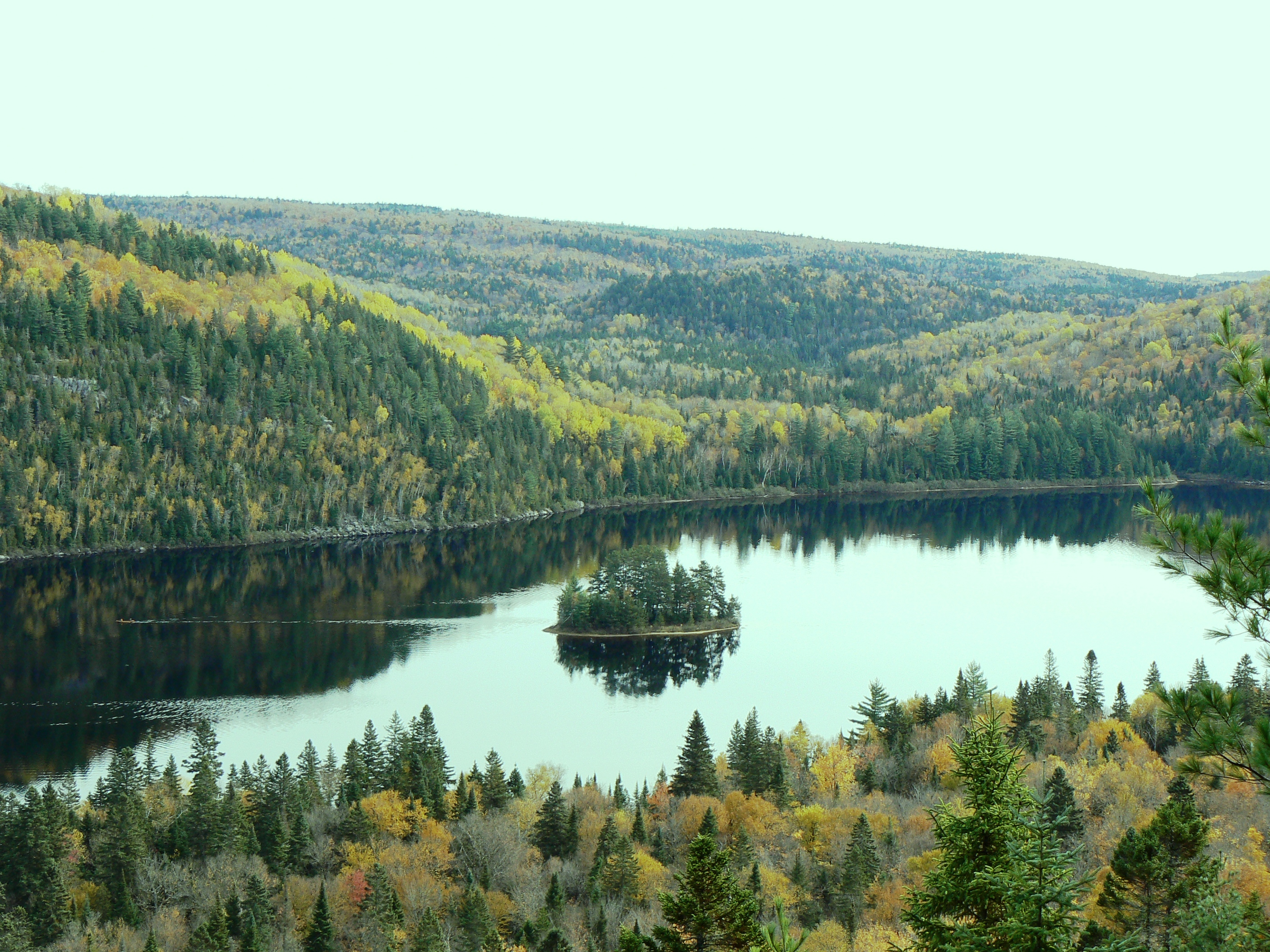 Pine Island in Lake Wapizagonke in La Mauricie National Park, Quebec, Canada.